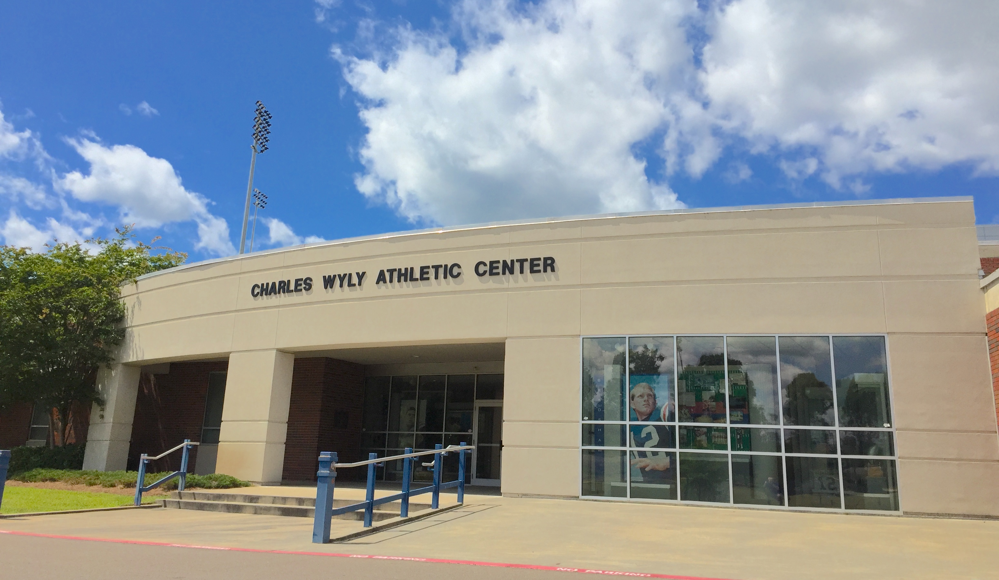 This is a photo I took of the Charles Wyly Athletic Center at Joe Aillet Stadium on the campus of Louisiana Tech University.